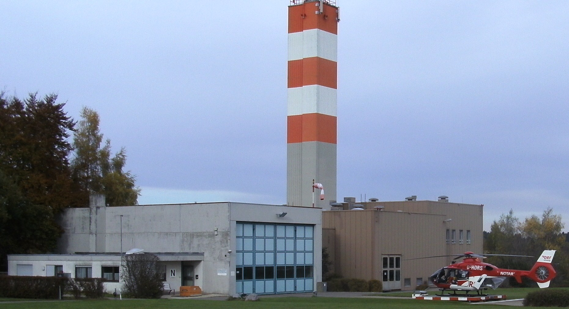 Hospital of Schwenningen Villingen-Schwenningen, Germany and rescue helicopter "Christoph 11"